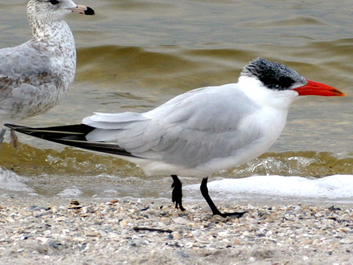 Caspian Tern, Hydroprogne caspia (syn. Sterna caspia). Location: Jacksonville, Florida, United States